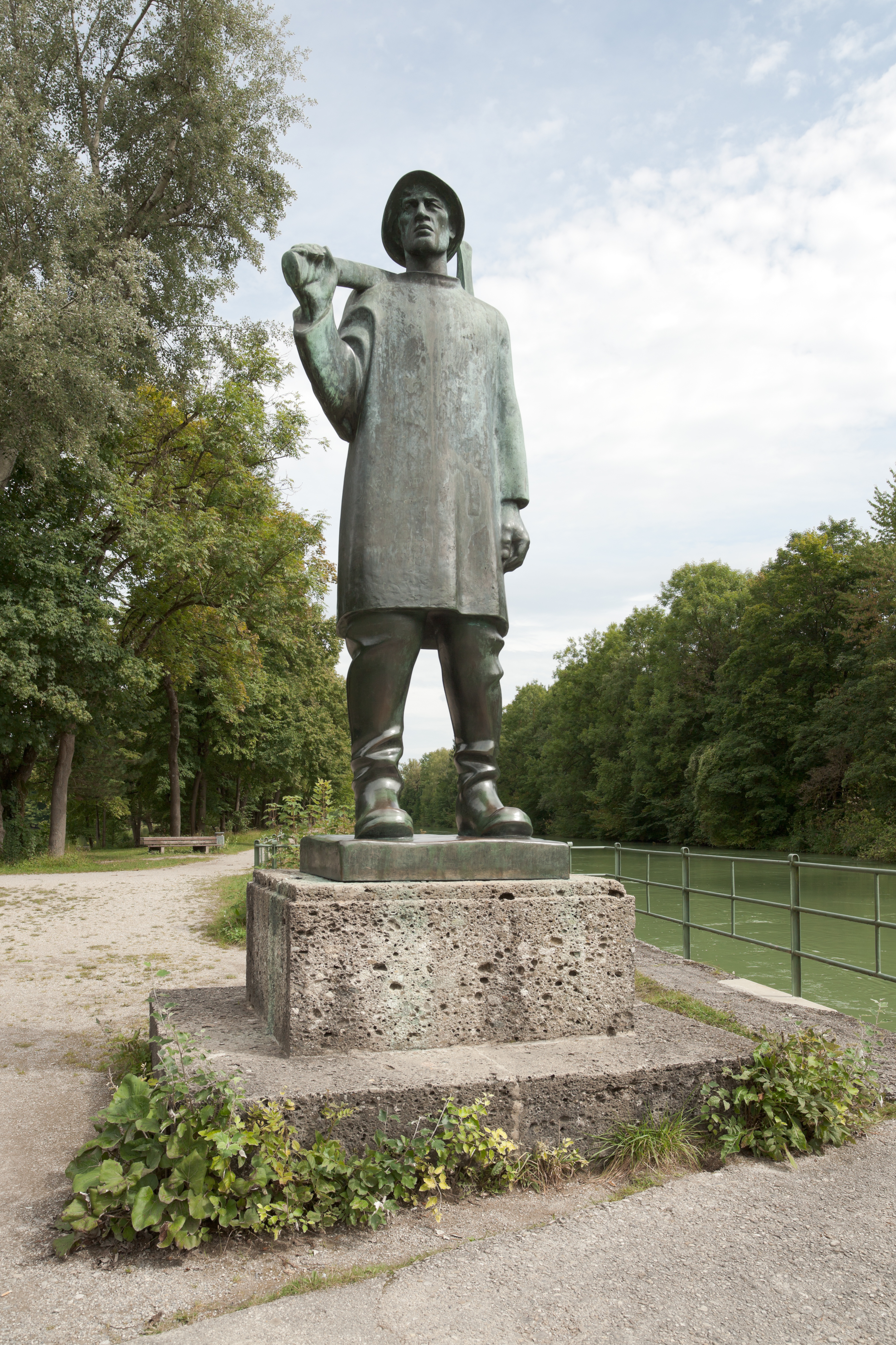 'Der_Isarflößer (The Isar-Raftsman), Hinterbrühler See, Munich, Germany' The Isar-Raftsman is a monumental bronze sculpture by German sculptor Fritz Koelle. He created it in 1938 to 1939 in his characteristic style pathetic worker figures.